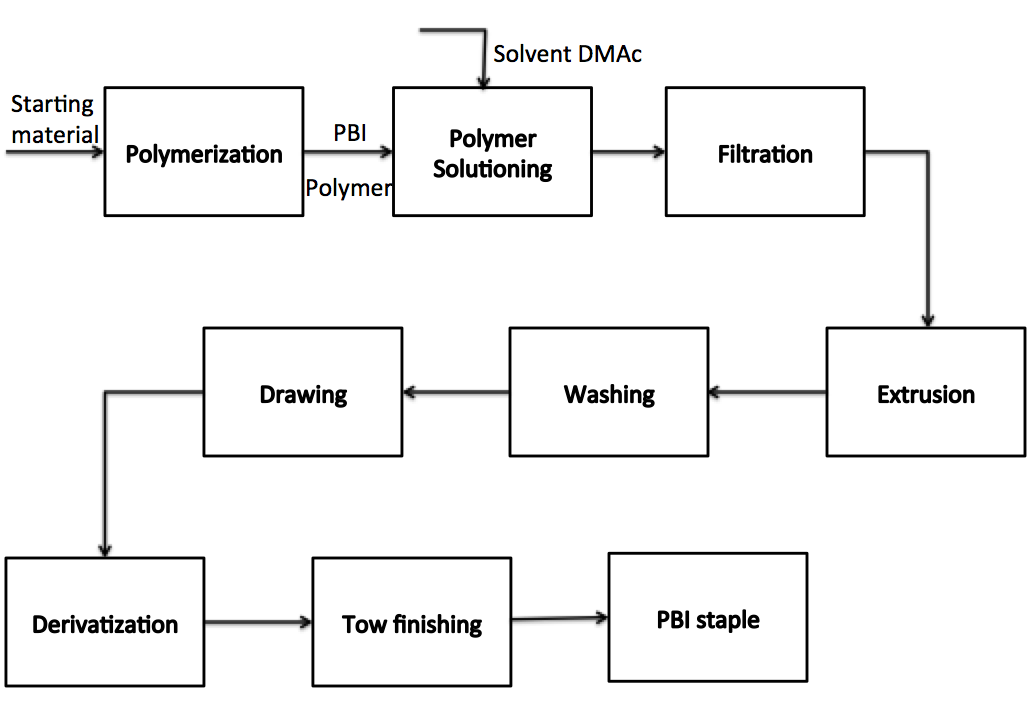 The PBI fiber is made in a serial of steps following polymerization to get PBI staple form for direct usage.